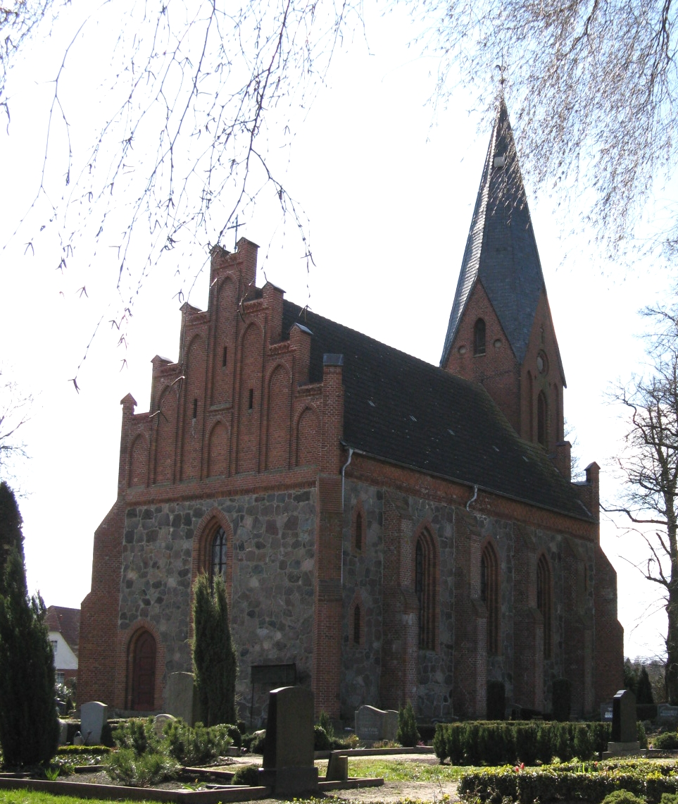 Church in Passow, Germany